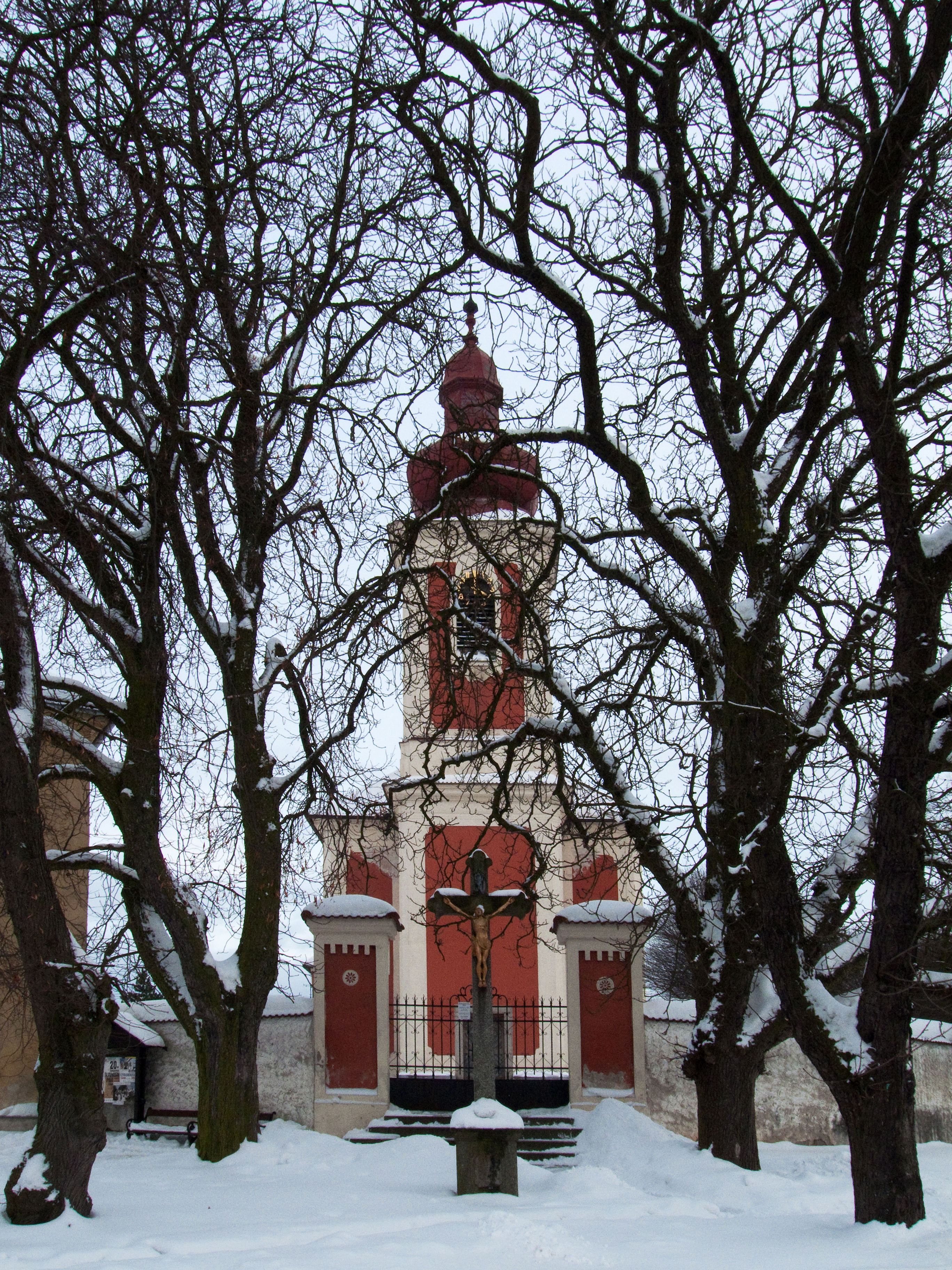 Winter view of the Holy Trinity church in the village of Malšice, Tábor District, Czech Republic; front view